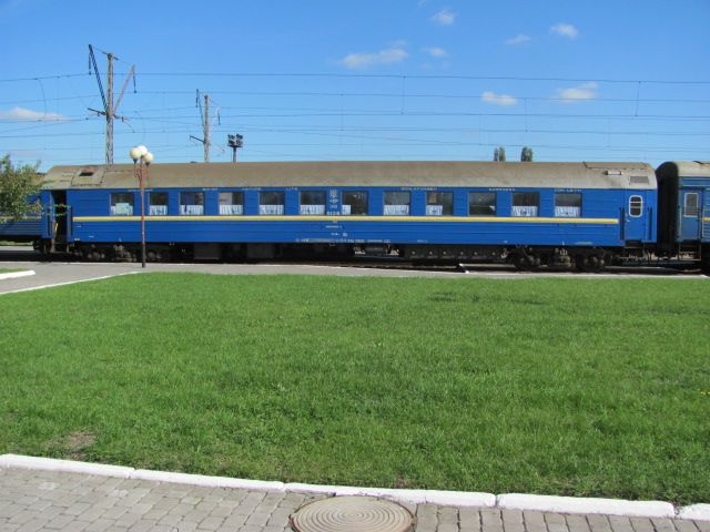 Odessa-Berlin Sleeping-car (UIC-standard sleeper WLAB) waiting in Kovel station to be picked up by the Kiev-Berlin train